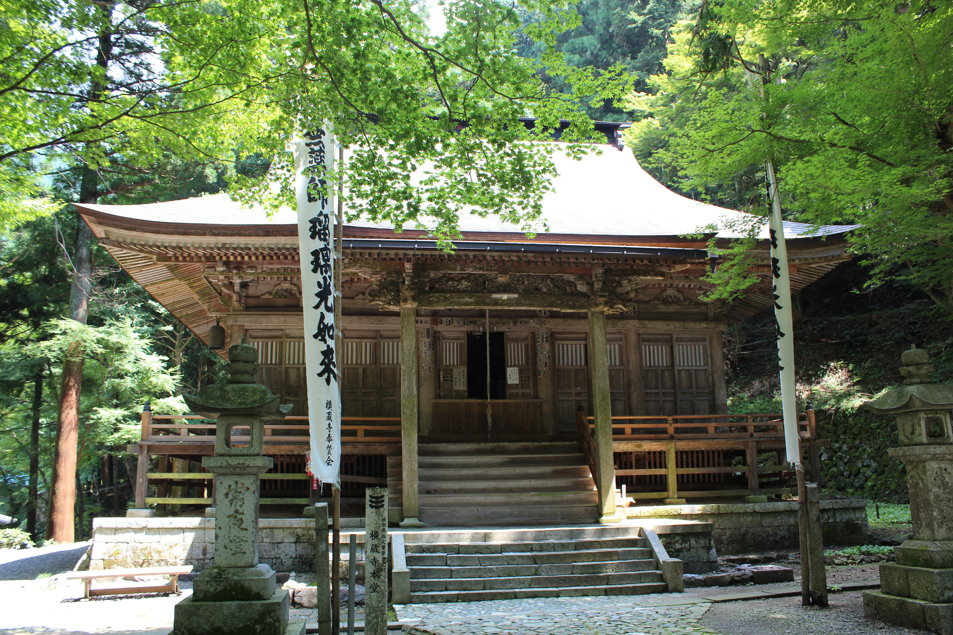 Yokokuraji Hondo, Ibigawa, Gifu, Japan.